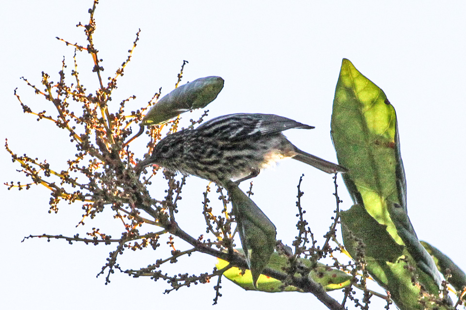 Arrow-headed Warbler Setophaga pharetra, Blue Mountains, Jamaica